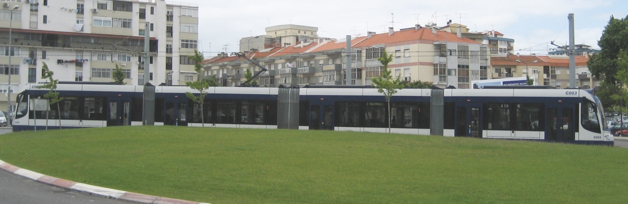 Combino Plus tram of the MTS, side view